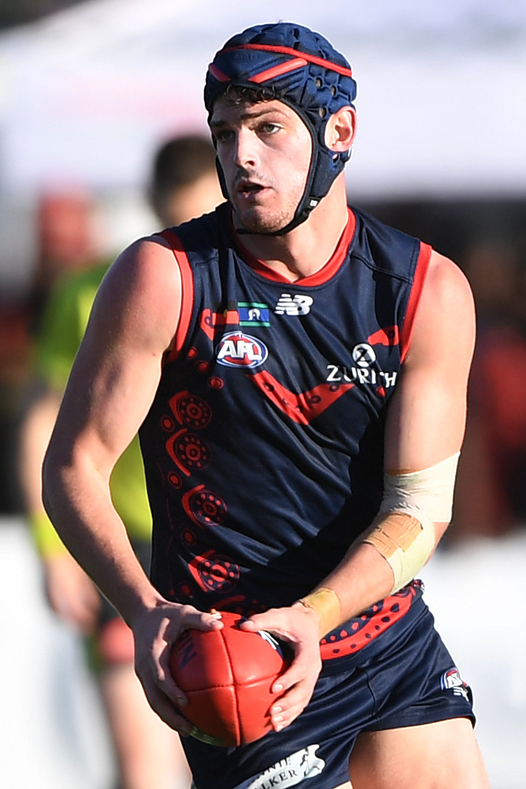 Angus Brayshaw of Melbourne during the 2019 AFL round 18 match between Melbourne and West Coast at Traeger Park on Sunday, 21 July 2019 in Alice Springs, Northern Territory.